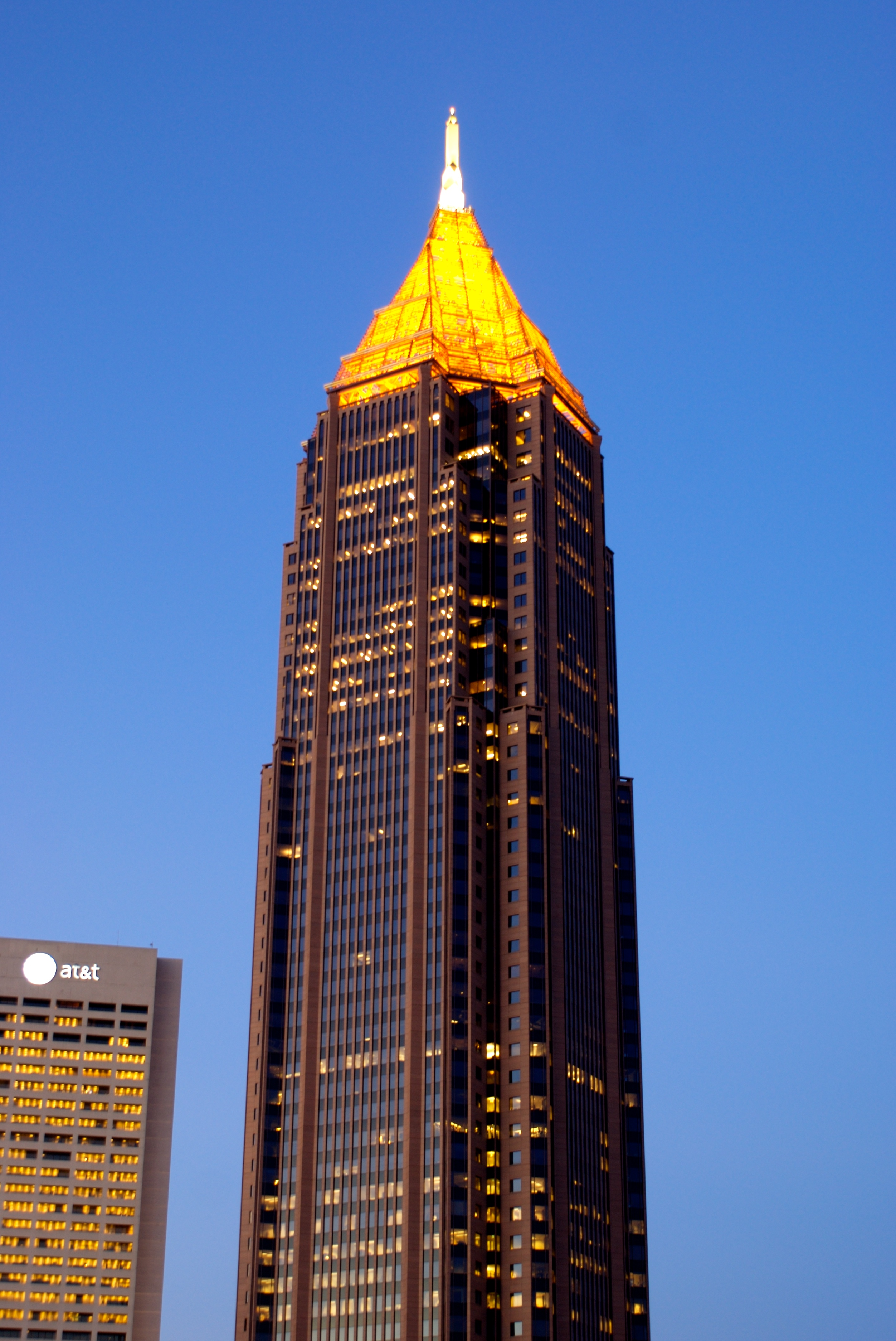 Bank of America Plaza (Atlanta)